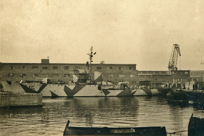 ITA C 15 Cicogna (aprile '43) MM MG